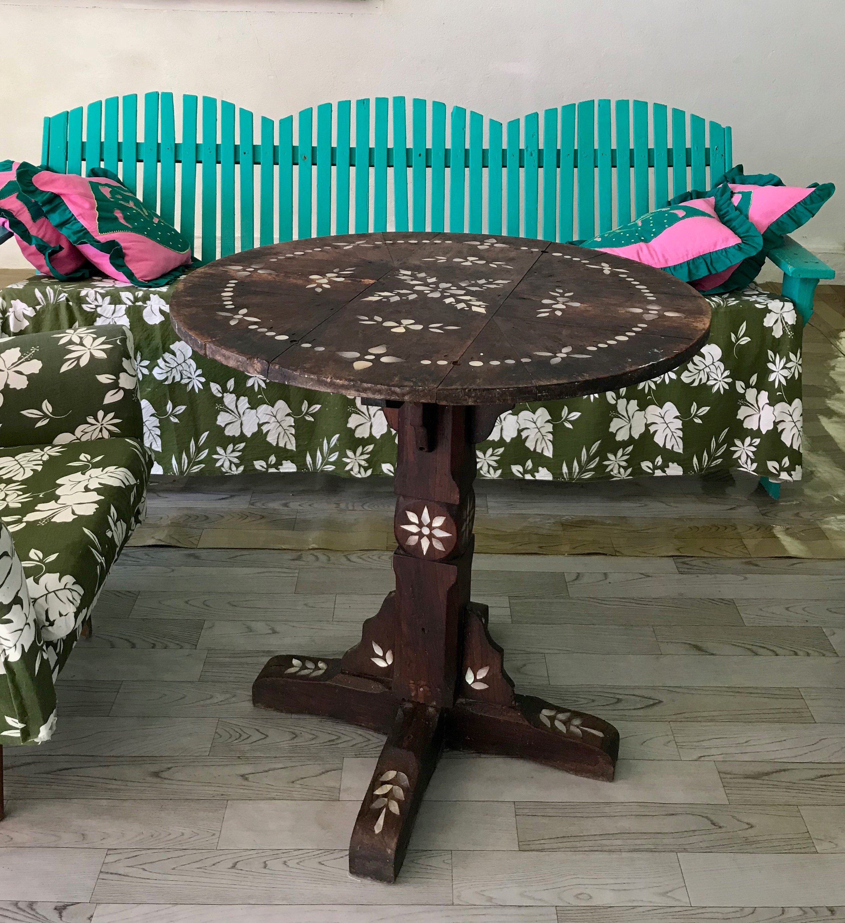 Rakahangan early 20th century table with shell inlay. Also couch and cushions with applique